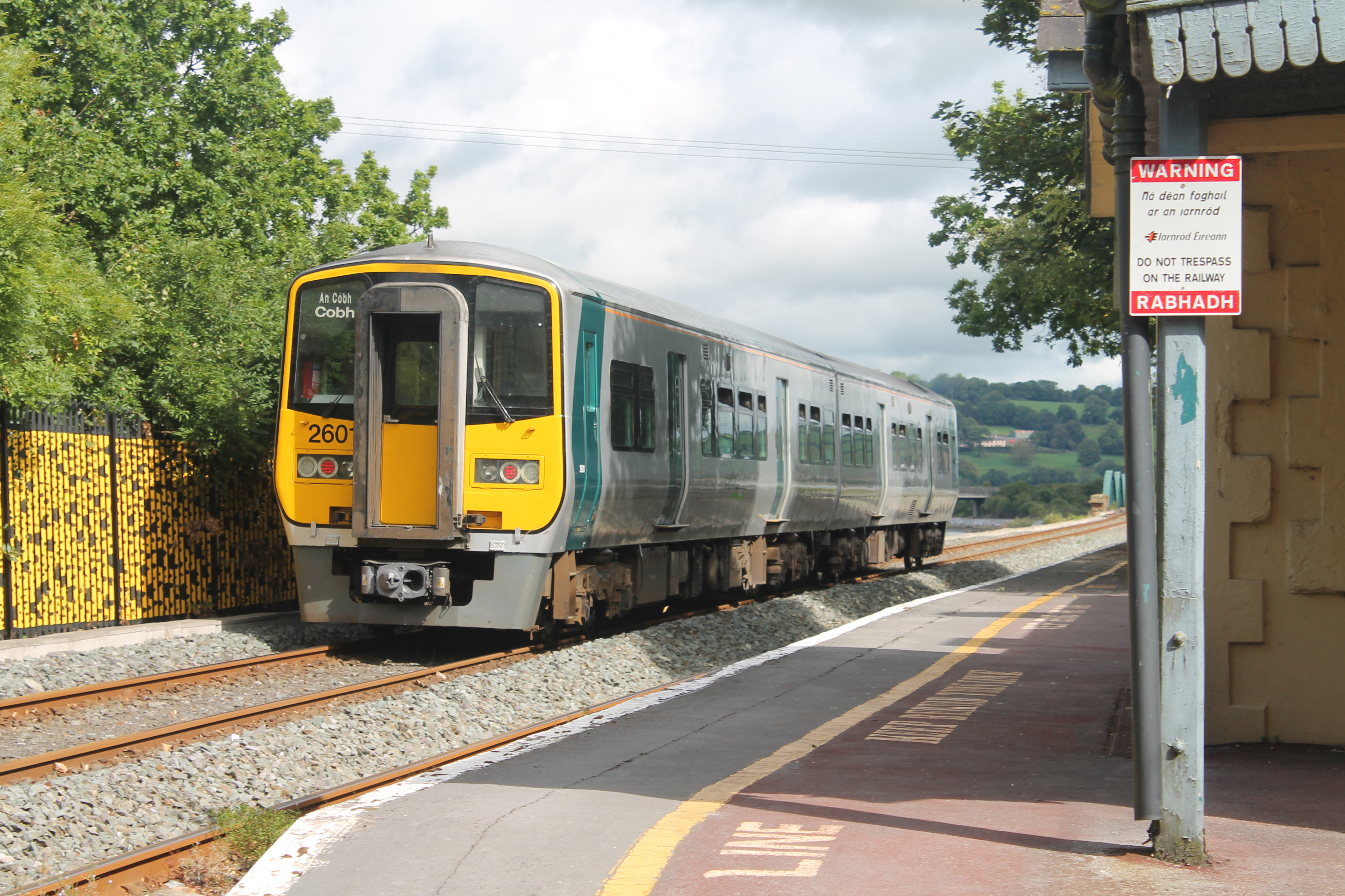 2600 Class railcar at Fota. 29/08/2013